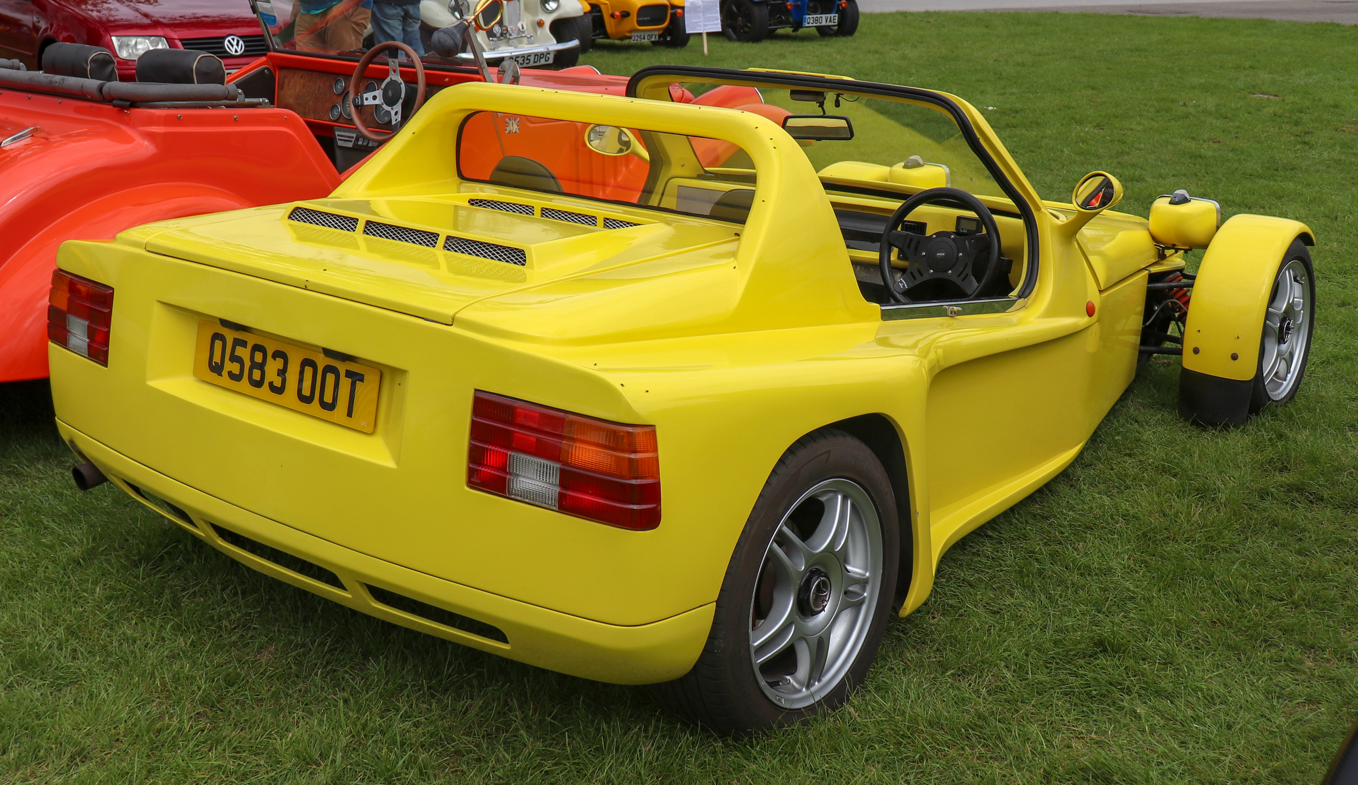 2005 Car Craft Cyclone 2.0 Rear Taken at the Stoneleigh National Kit Car Motor Show 2019